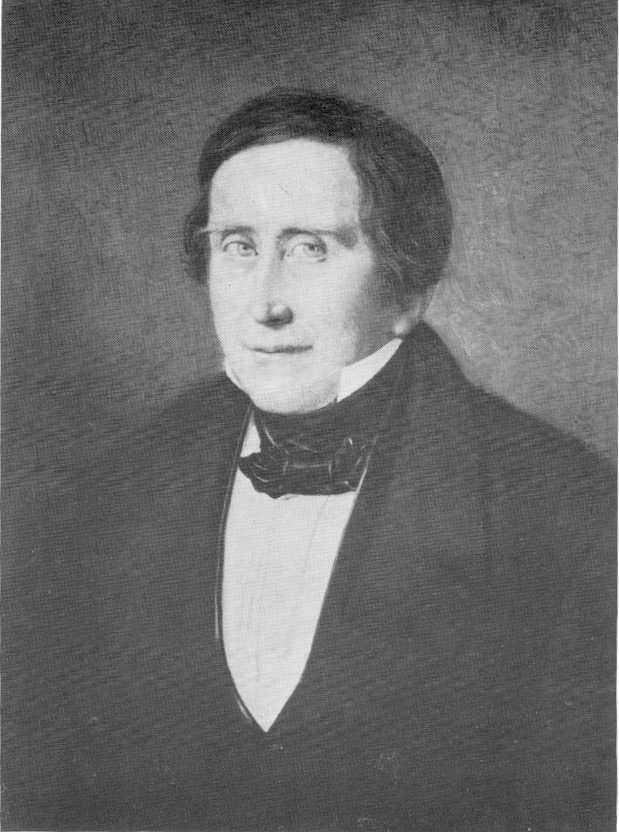 Johan Carl Modeweg, founder of Brede Textile Factory in Lyngby, Denmark